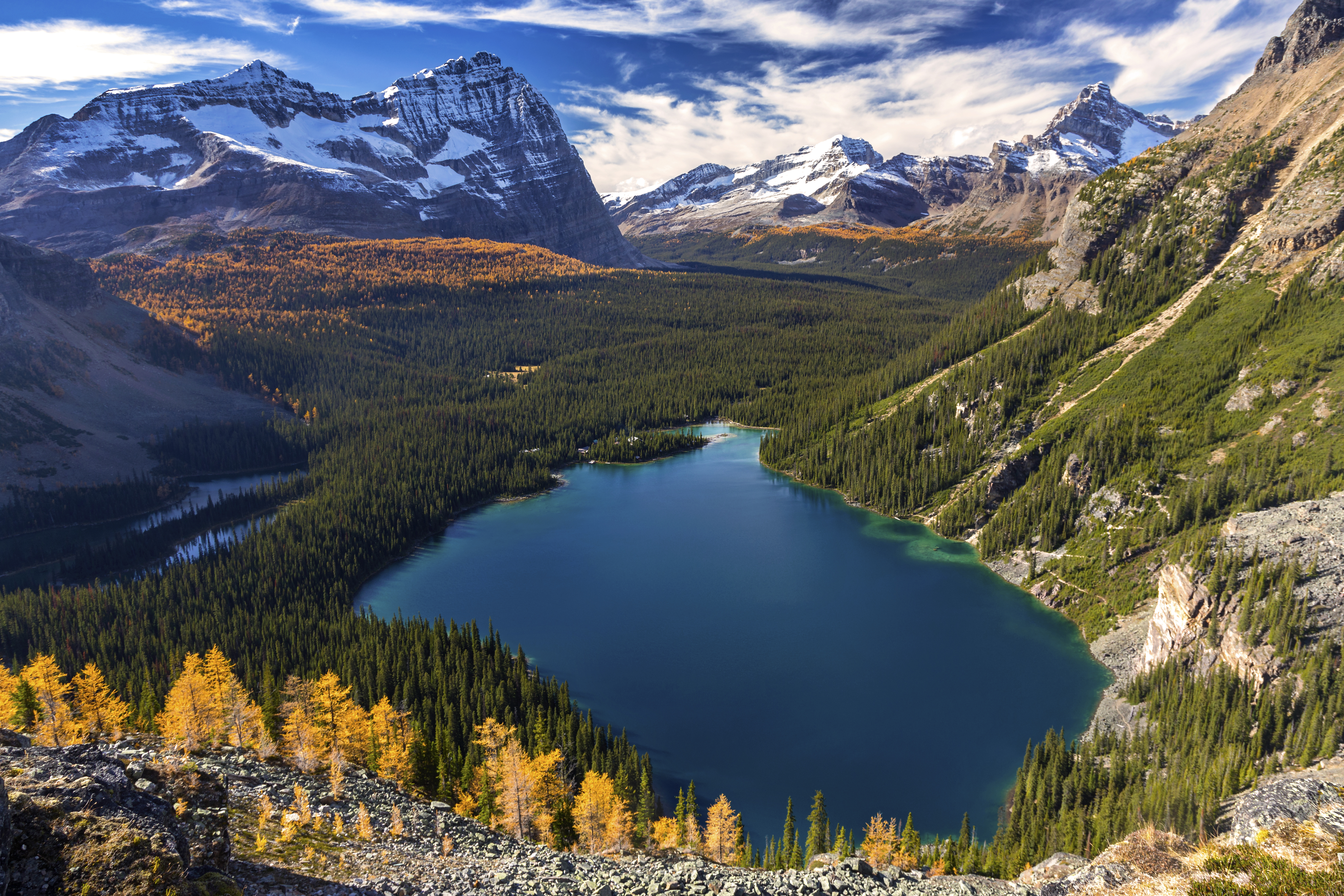 Panoramic View of Lake O'Hara from Alpine Circuit Hiking Trail in Yoho National Park of Canadian Rocky Mountains This photo was taken in a protected area in Canada, Wikidata item Lake O'Hara (Q1801034)